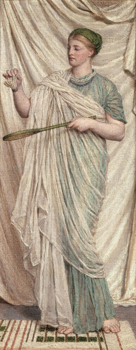 Shuttlecock